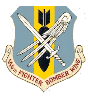 146th Fighter-Bomber Wing - Emblem